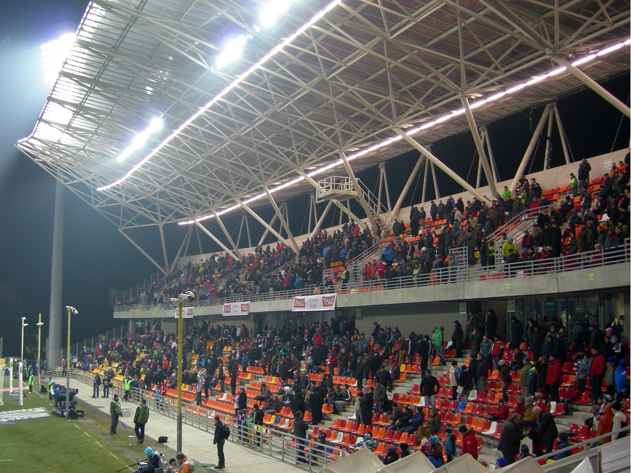 Stadion Miejski in Bielsko-Biała – northern stand – 14 February 2014.